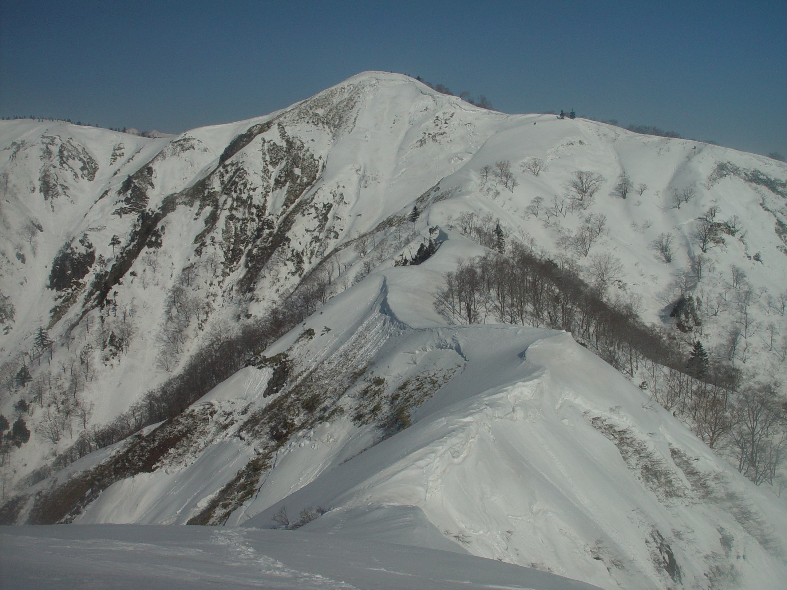 Mount Hideri seen from easternsouth in Ryohaku Mountains, Gifu Prefecture, Japan.